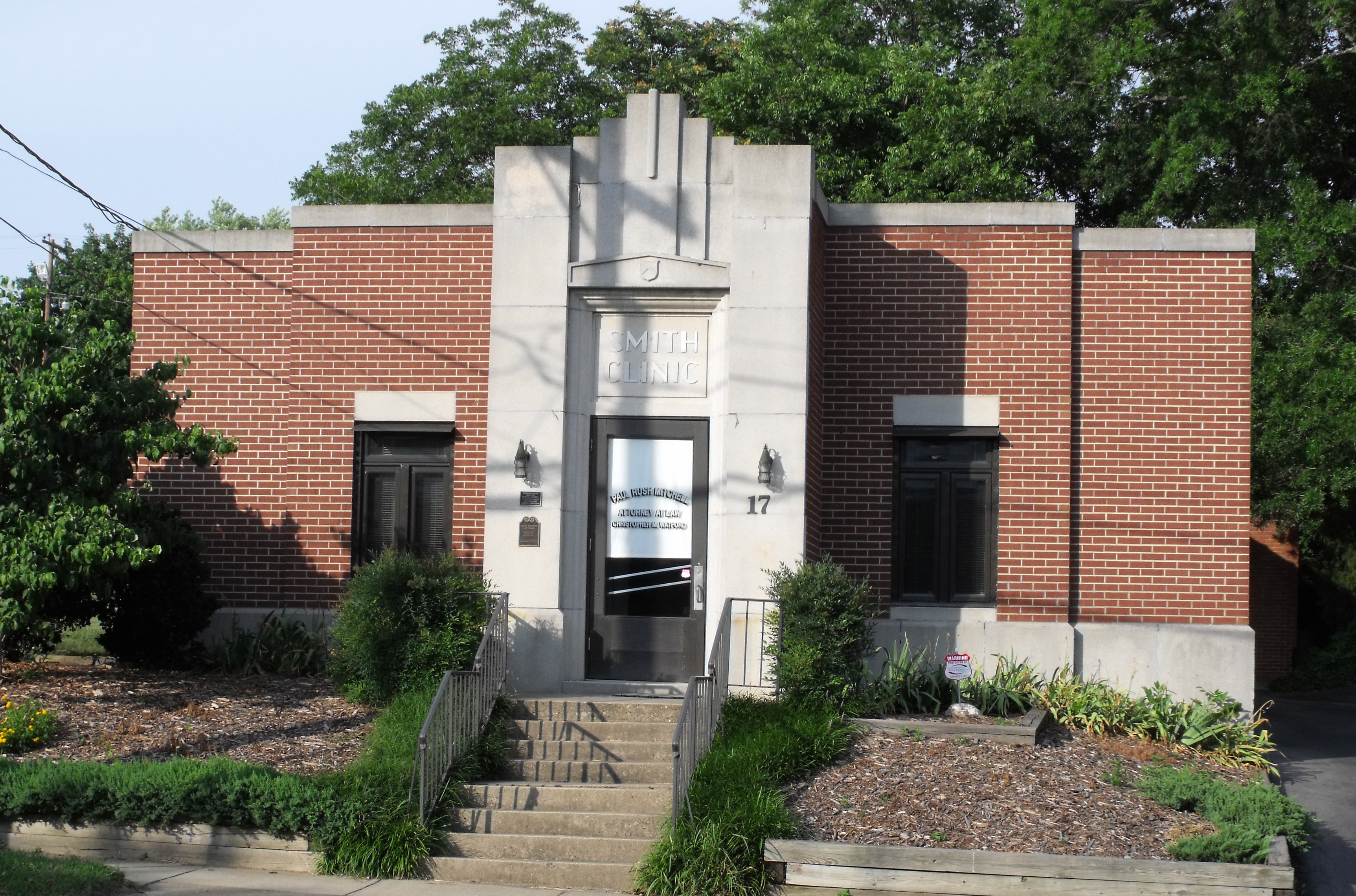 Photograph of Smith Clinic, Thomasville, Davidson County, North Carolina, USA. A building on the National Register of Historic Places